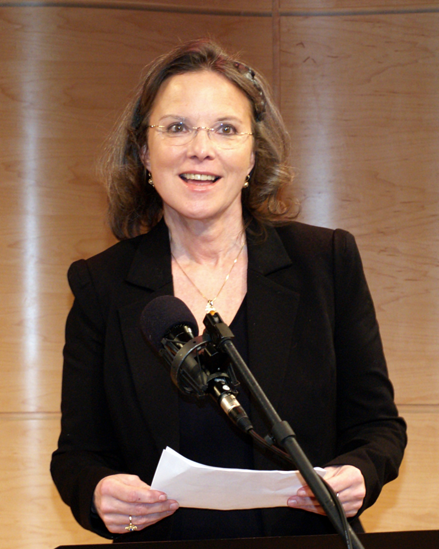 Carolyn Forché announcing the five 2010 National Book Critics Circle finalists in poetry.